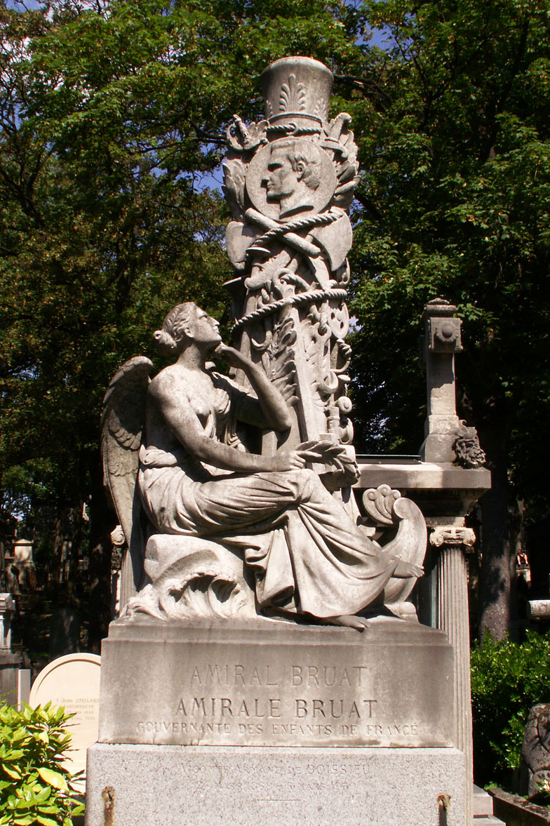 grave of amiral Armand Joseph Bruat at cimetière du Père-Lachaise, sculpted by Hippolyte Maindron (1801 - 1884)